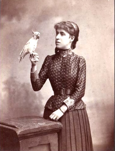 Baroness Fanny Scotti (1861-1925), Italian pianist and wife of Italian opera singer Giovanni Battista De Negri